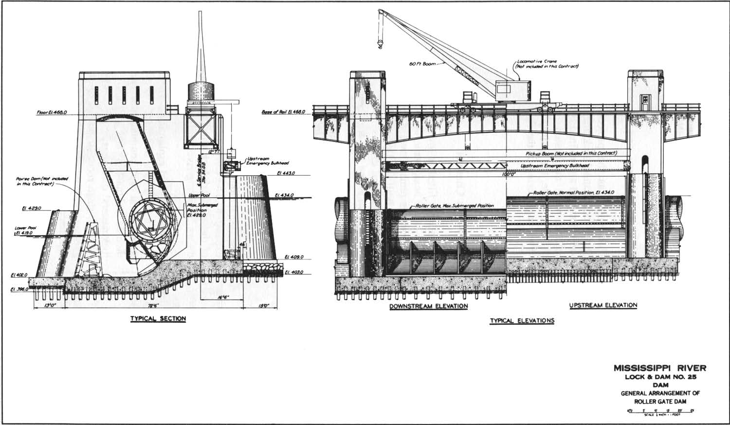 Lock and Lock No. 25, Mississippi 1937